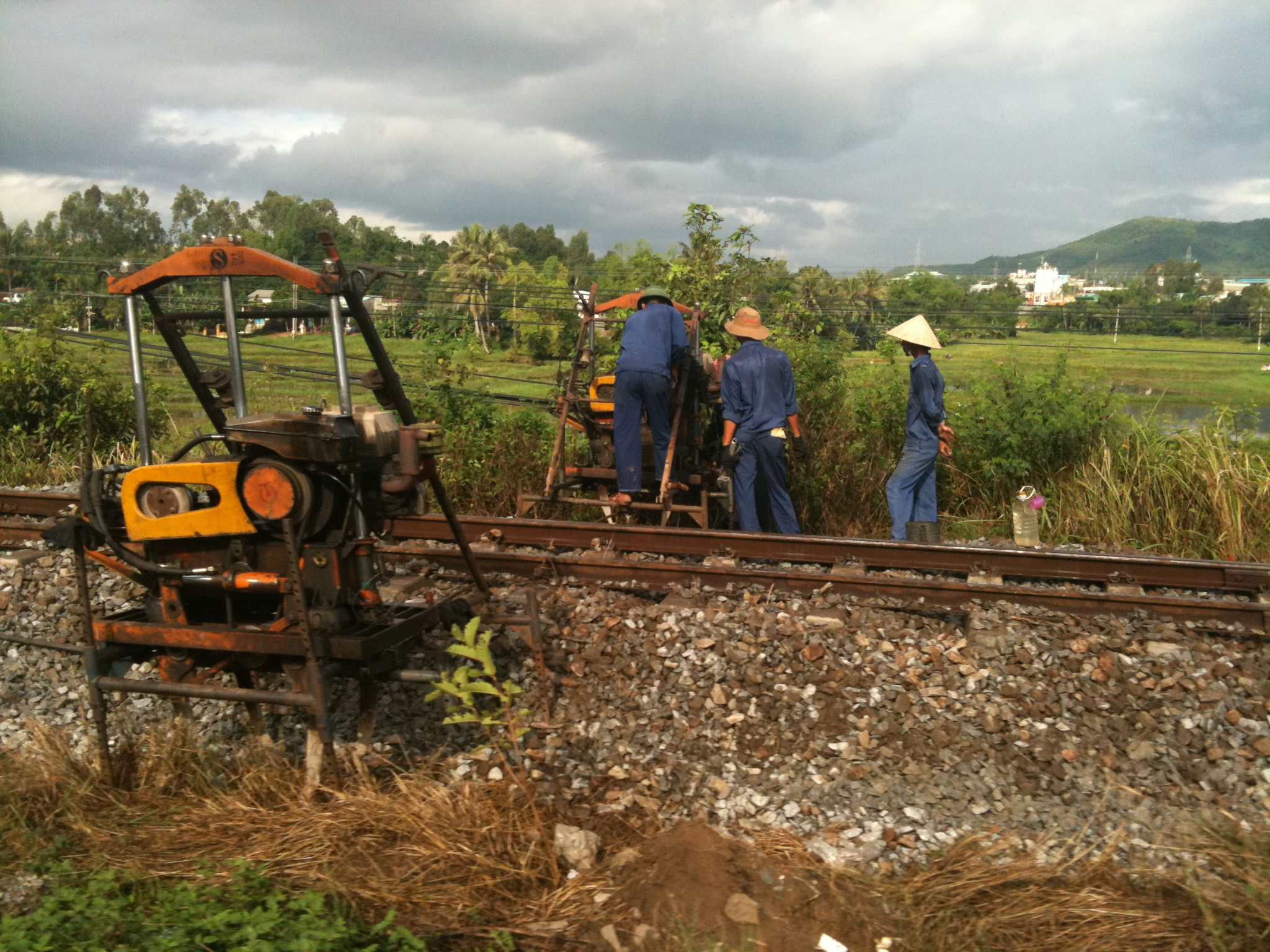 Railroad workers on the tracks in Da Nang, Vietnam.